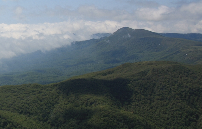 Mount Orofure (Orofureyama) as seen from Mount Tokushumbetsu